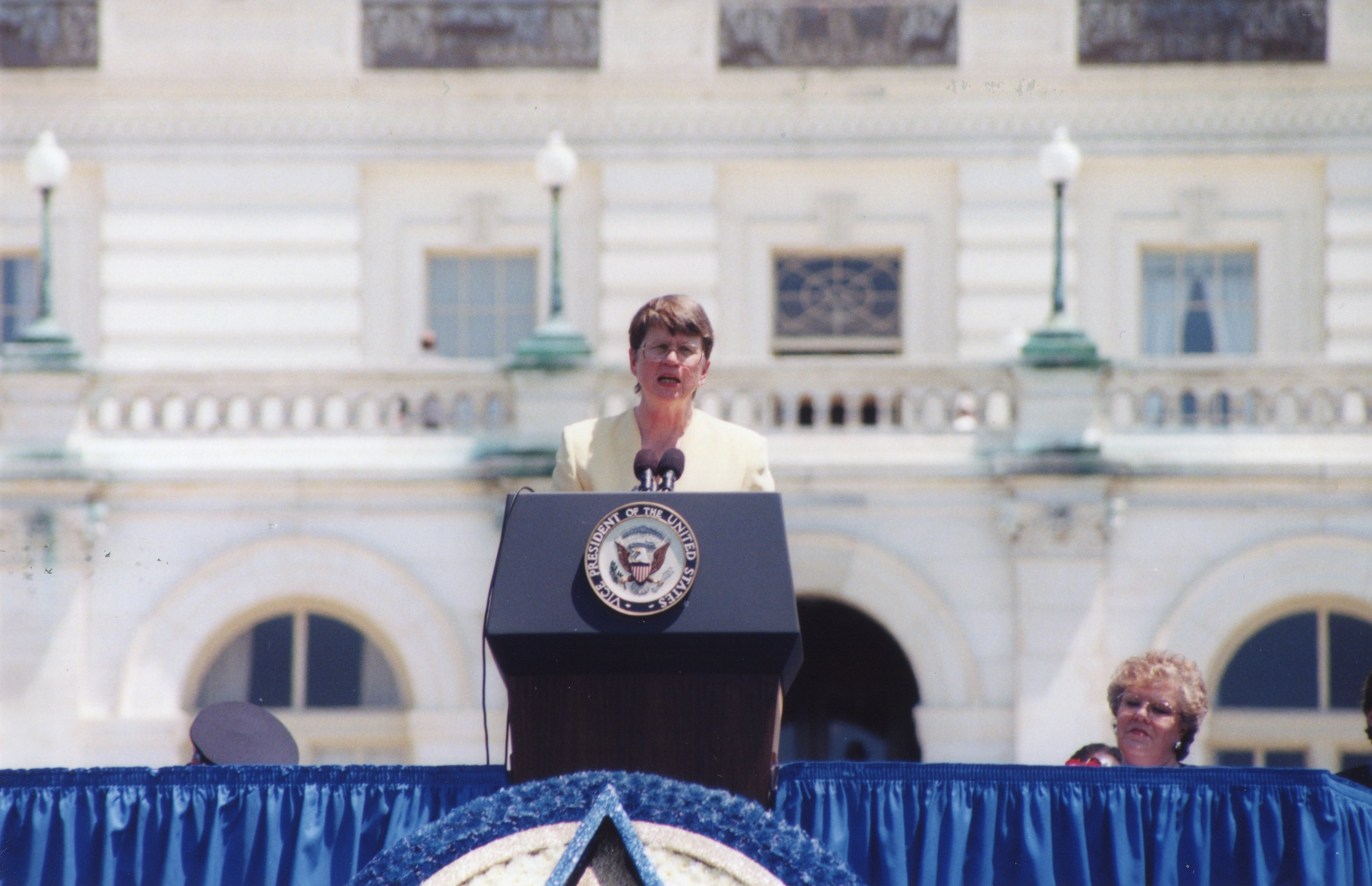 17th Annual National Peace Officers' Memorial Day Services on the West Lawn of the US Capitol Grounds in Washington DC on Friday, 15 May 1998 by Elvert Barnes Photography Janet Reno, US Attorney General NATIONAL PEACE OFFICERS MEMORIAL at Visit NLEOMF National Police Week at Visit Elvert Barnes 1998 NATIONAL POLICE WEEK docu-project at